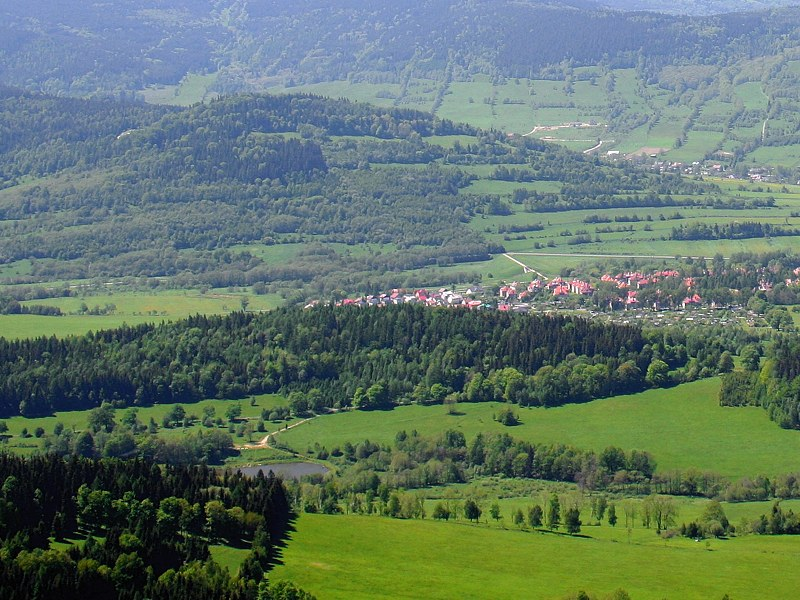 Mountain Krzyżnik and city Stronie Śląskie in Lower Silesia (Poland). In background moutains Krowiarki